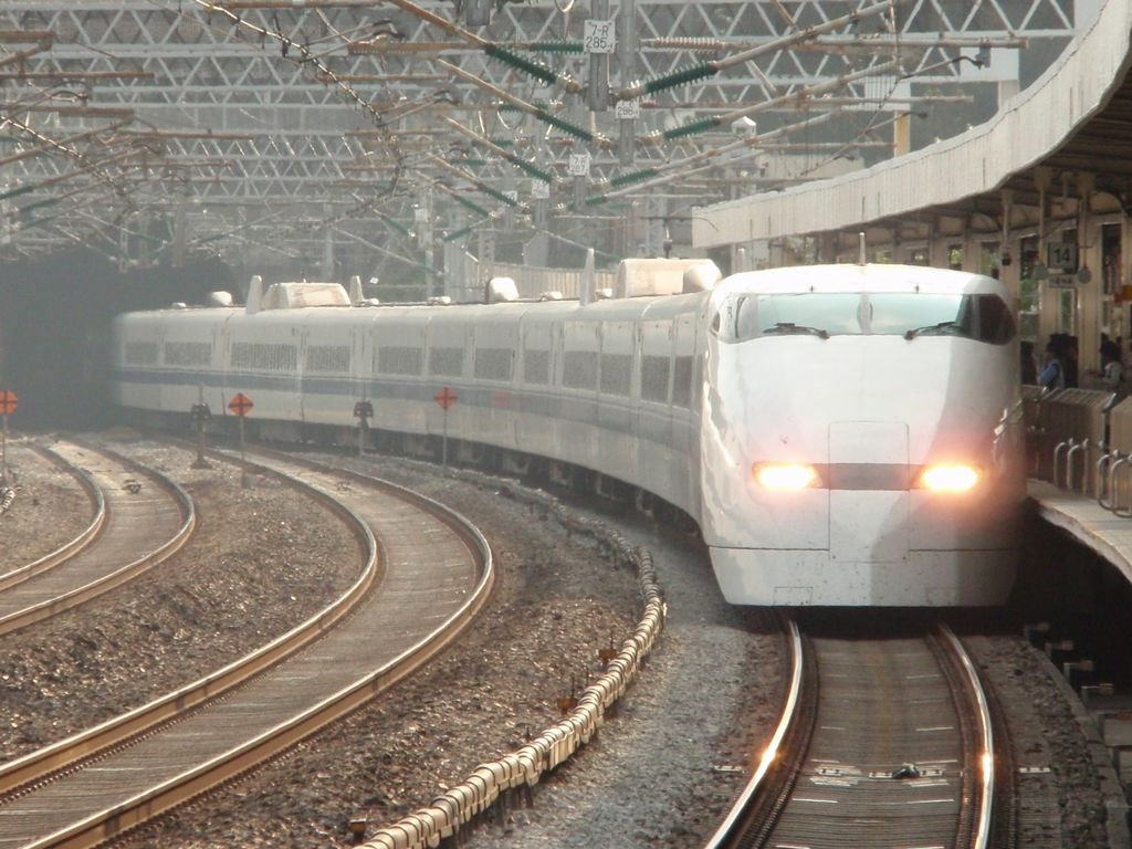 Shinkansen Series 300 at Odawara Sta.